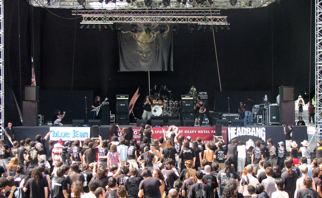 Arsames, Persian death metal band at unirock fest. turkey 2009